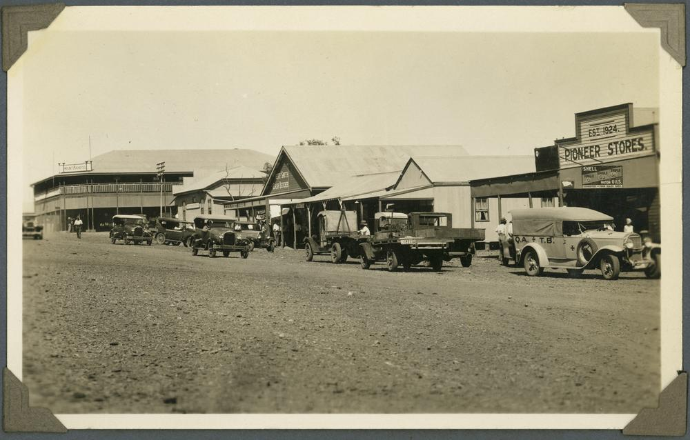 Main street in Mount Isa with Smiths Hotel on the left, ca. 1936